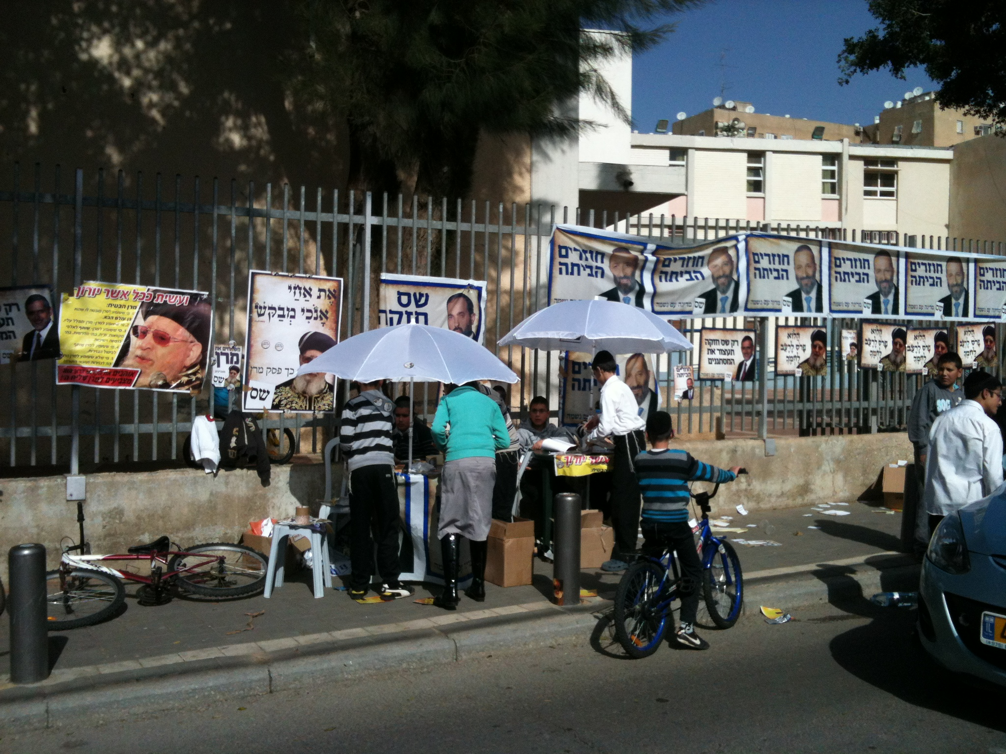 Events in Israel